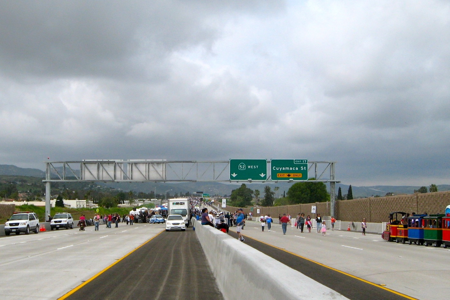 Taken at the opening celebration of the Fanita segment.